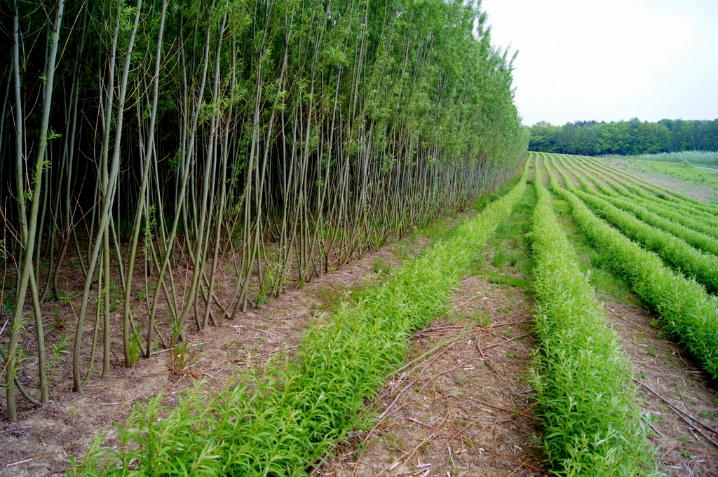 Re-growth of willow planation after harvest (right), 3-years old willow plantation (right)